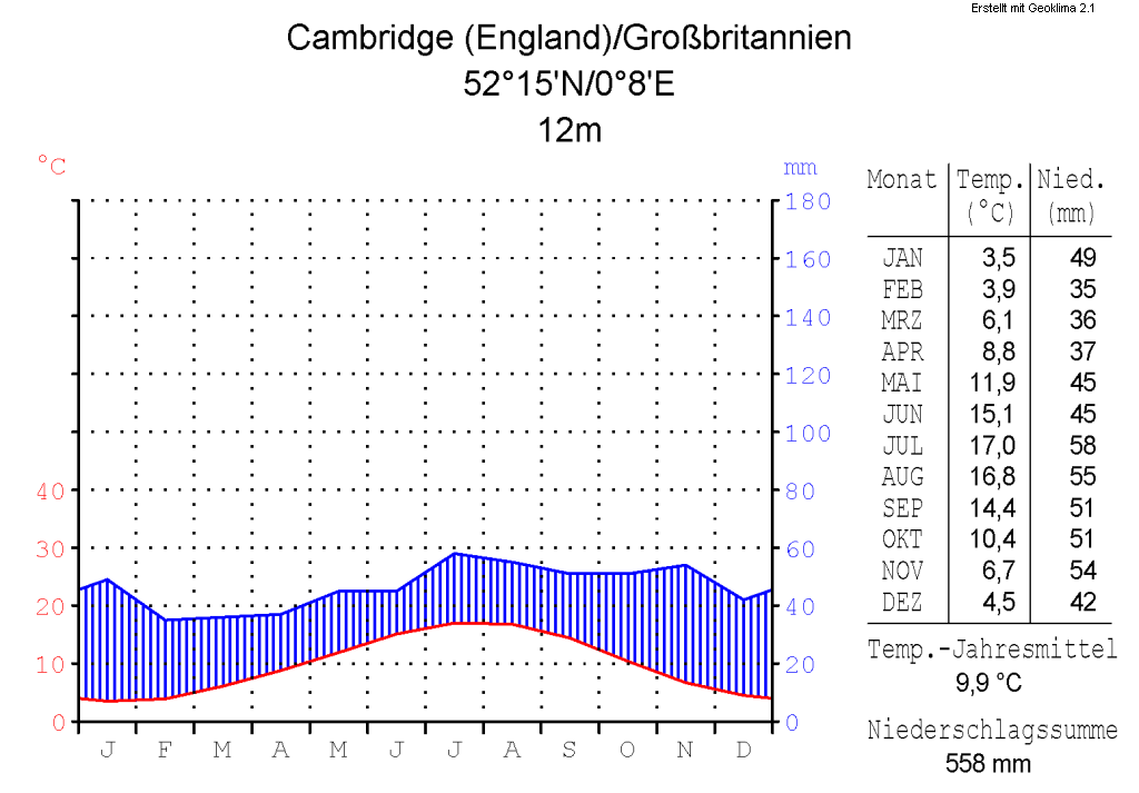 climate chart in the format by Walter and Lieth, metric, °Celsisus and millimeters, made with Geoklima 2.1